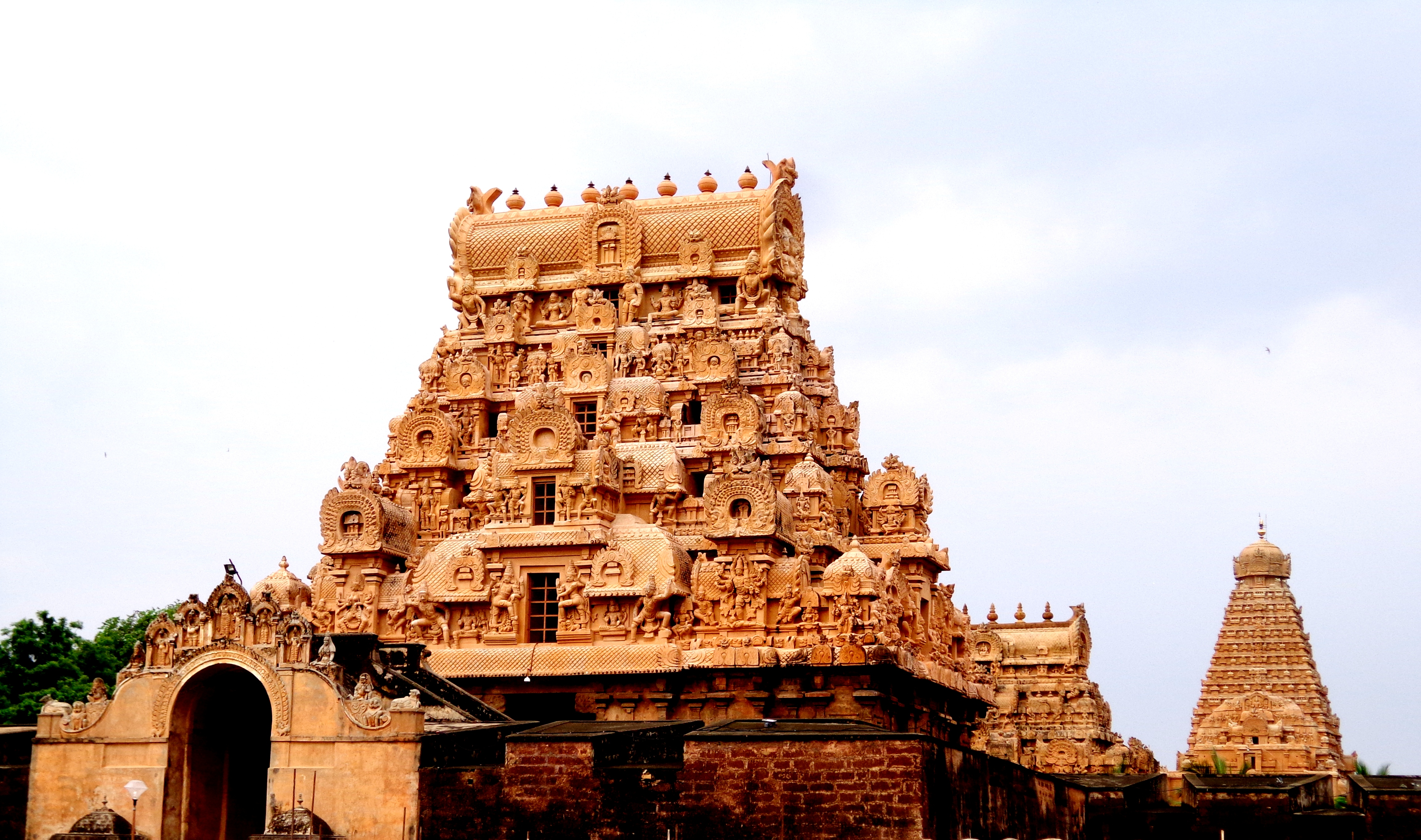 Brihadeeswara Temple is a Lord Shiva Temple located in Thanjavur,Tamil Nadu.It is aUNESCO world heritage site and it is also referred to as "Great Living Chola Temples " along with Airavatesvara Temple,Kumbakonam and Gangaikonda chola puram Temple